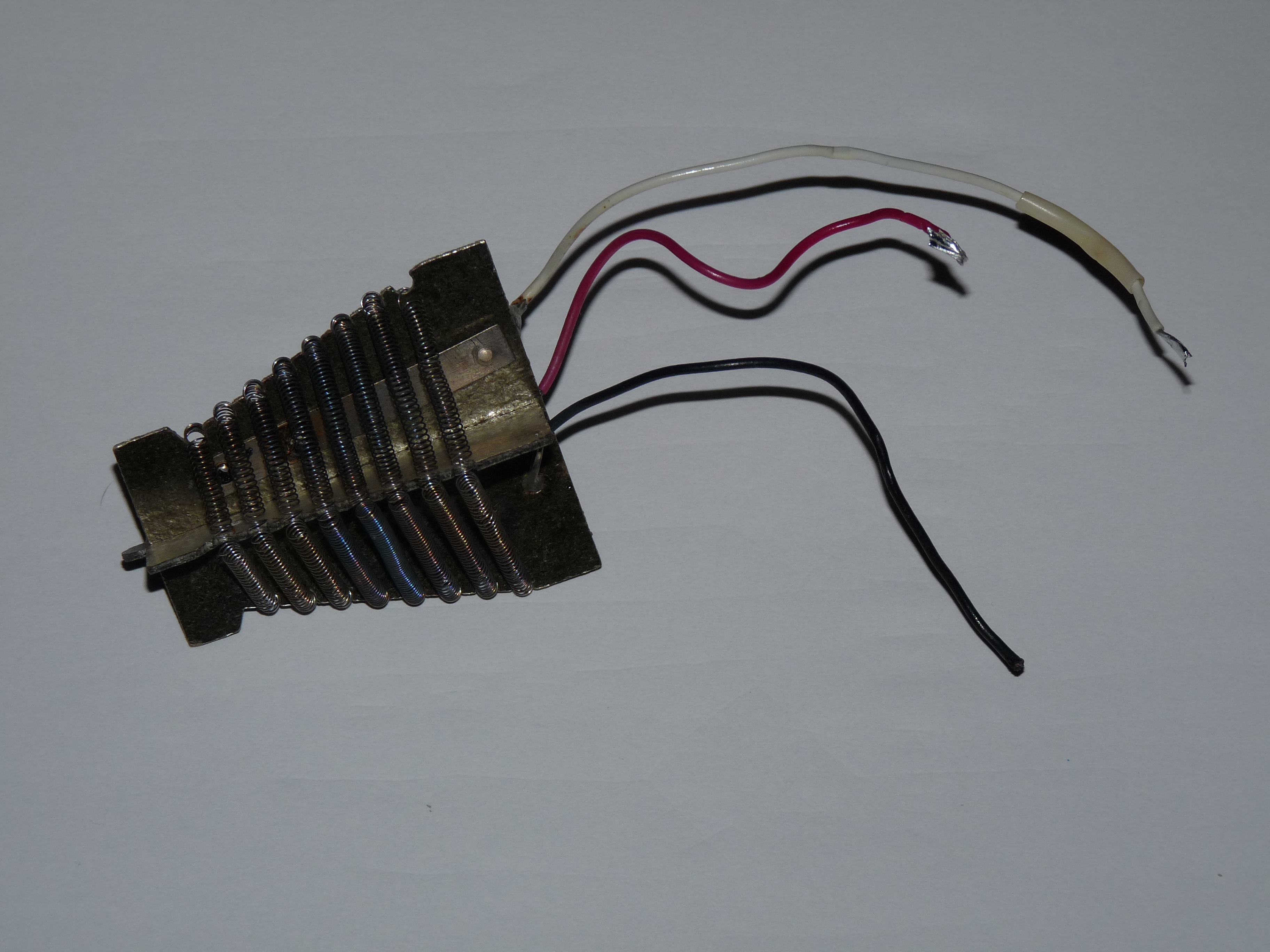 Open resistance Soviet heating element from 1980's with bimetall strip (overheating protection).